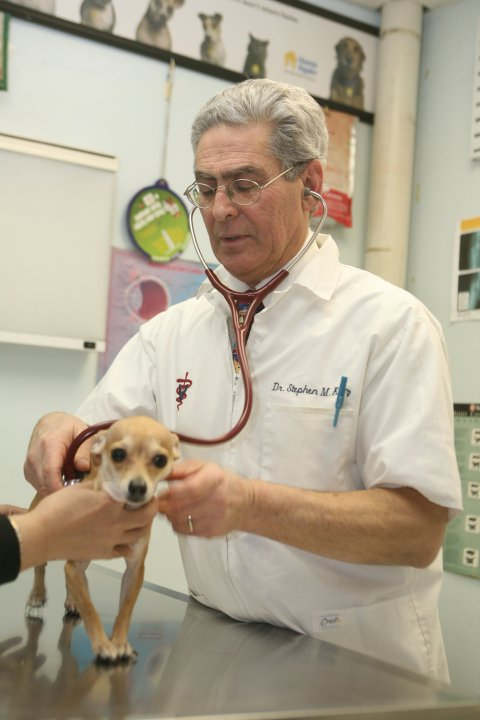 Photo of New York State Assemblyman Dr. Stephen M. "Steve" Katz at the Bronx Veterinary Center.